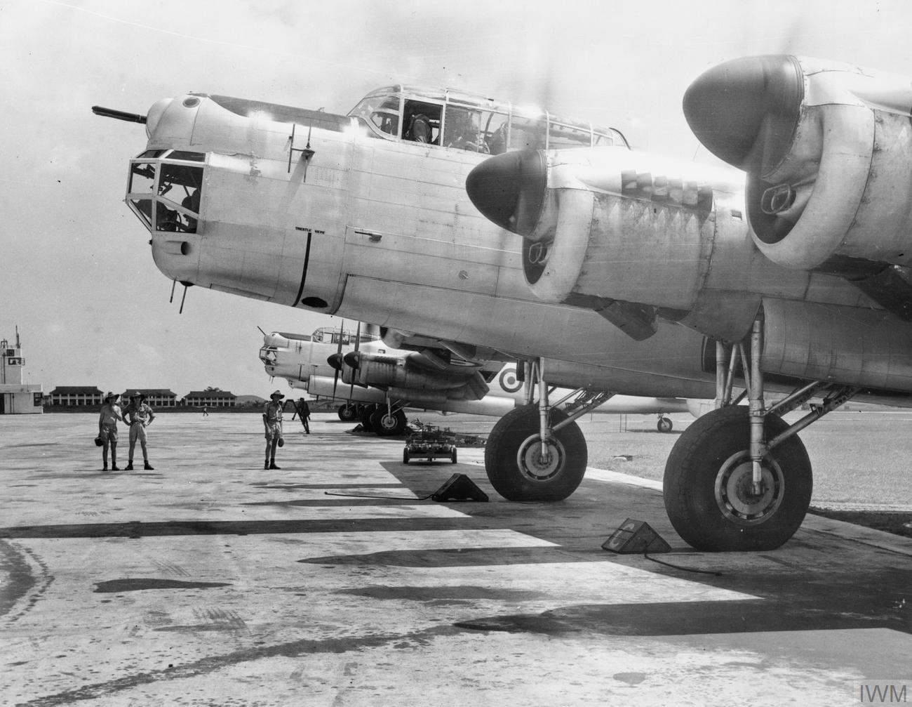 Title: THE FIRST OPERATION OF NO 1 SQUADRON, ROYAL AUSTRALIAN AIR FORCE FROM TENGAH, SINGAPORE, AUGUST 1950. One of the first Avro Lincoln aircraft to set off from Tengah on a bombing operation to inaugurate No 1 Squadron's anti-bandit activities in Malaya, revving up its engines before taxying out to the runway.